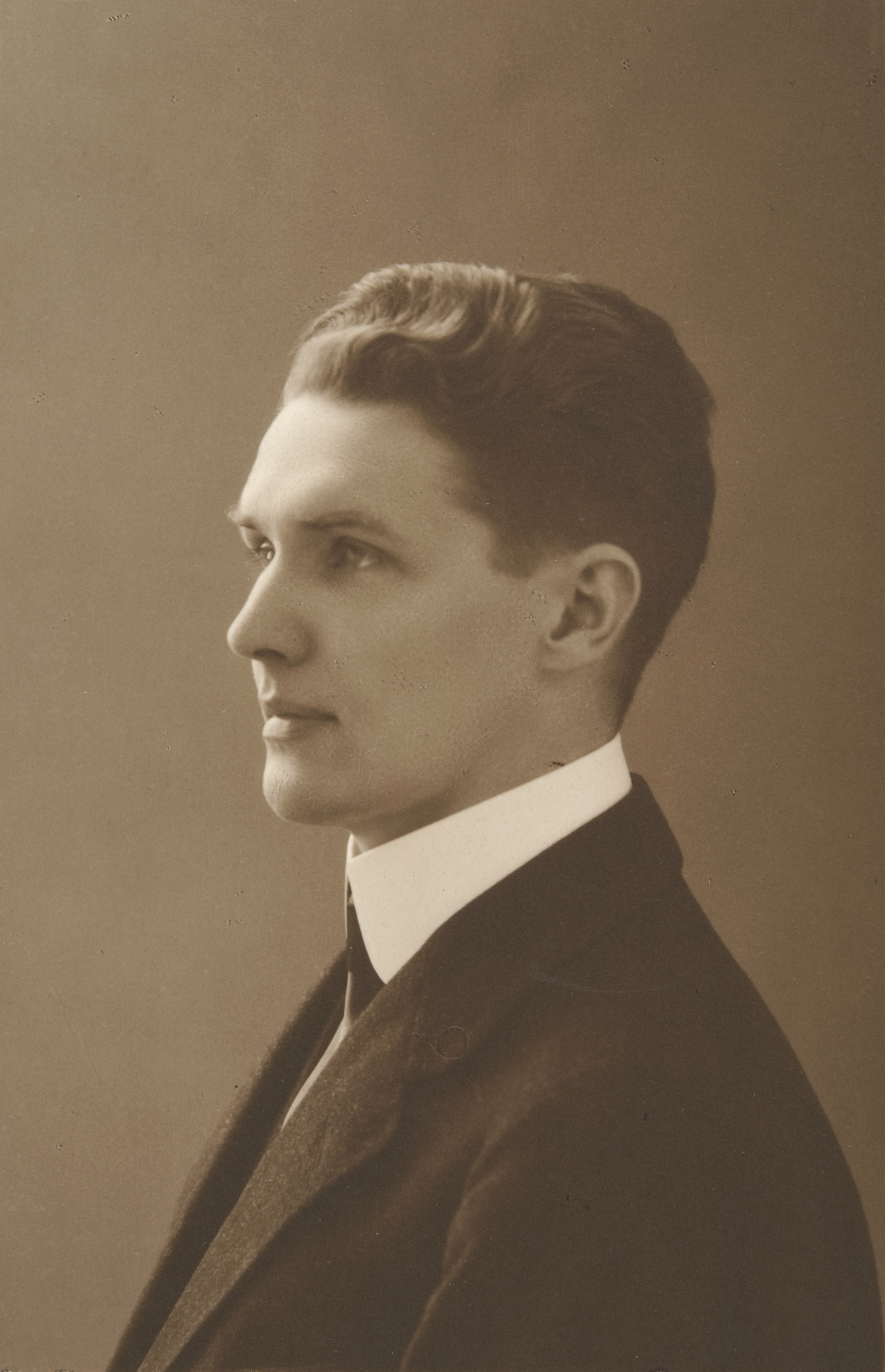 Photograph of the Finnish scholar and translator Juho August Hollo (1885–1967).